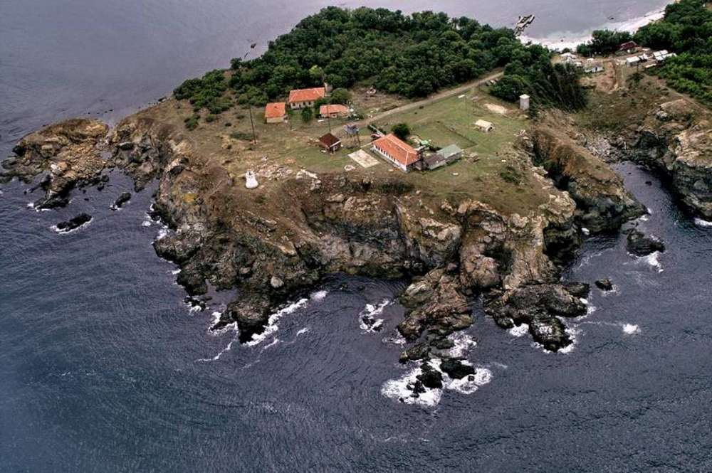 Maslen Nos